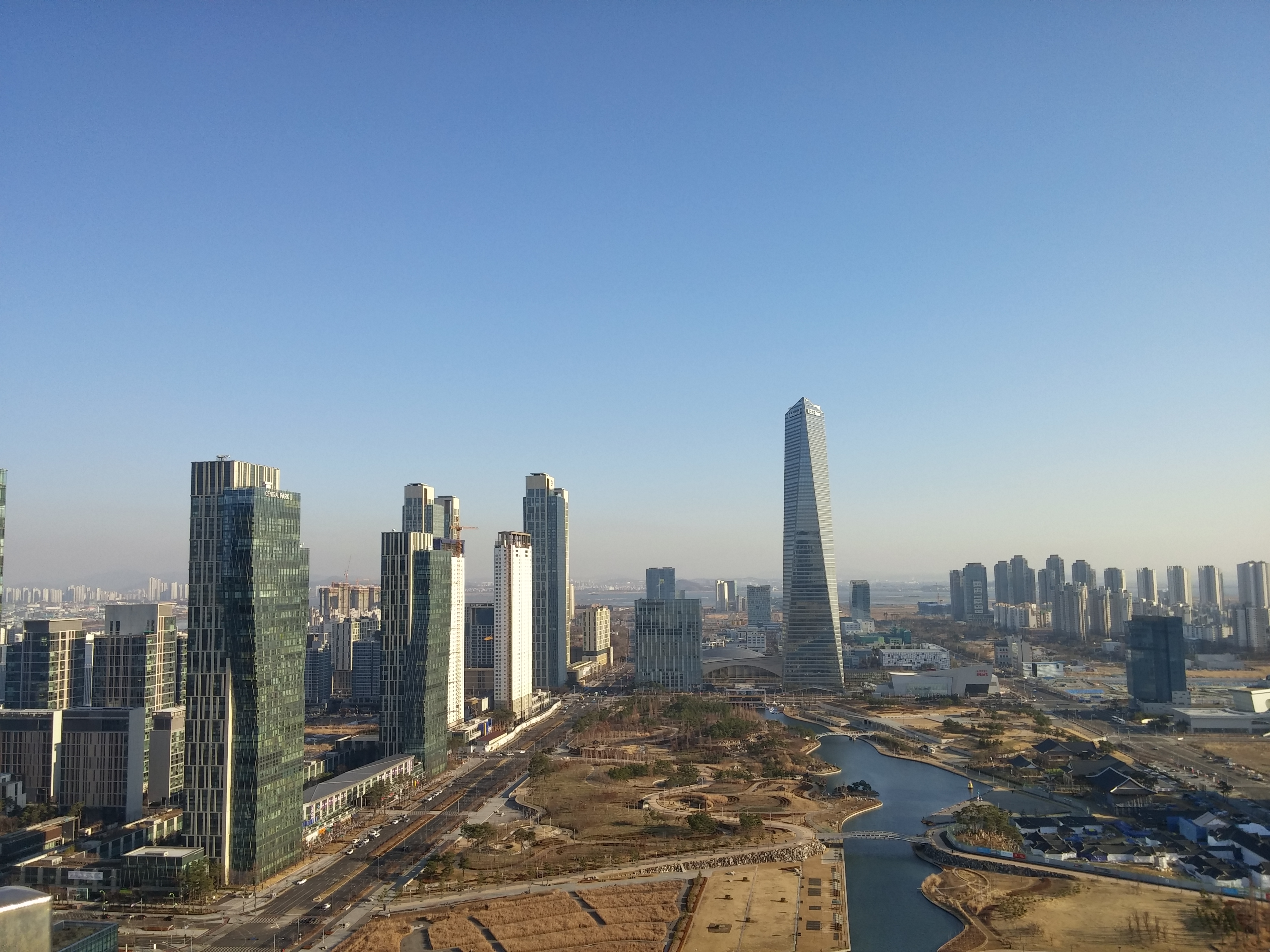 Songdo City, Incheon, South Korea